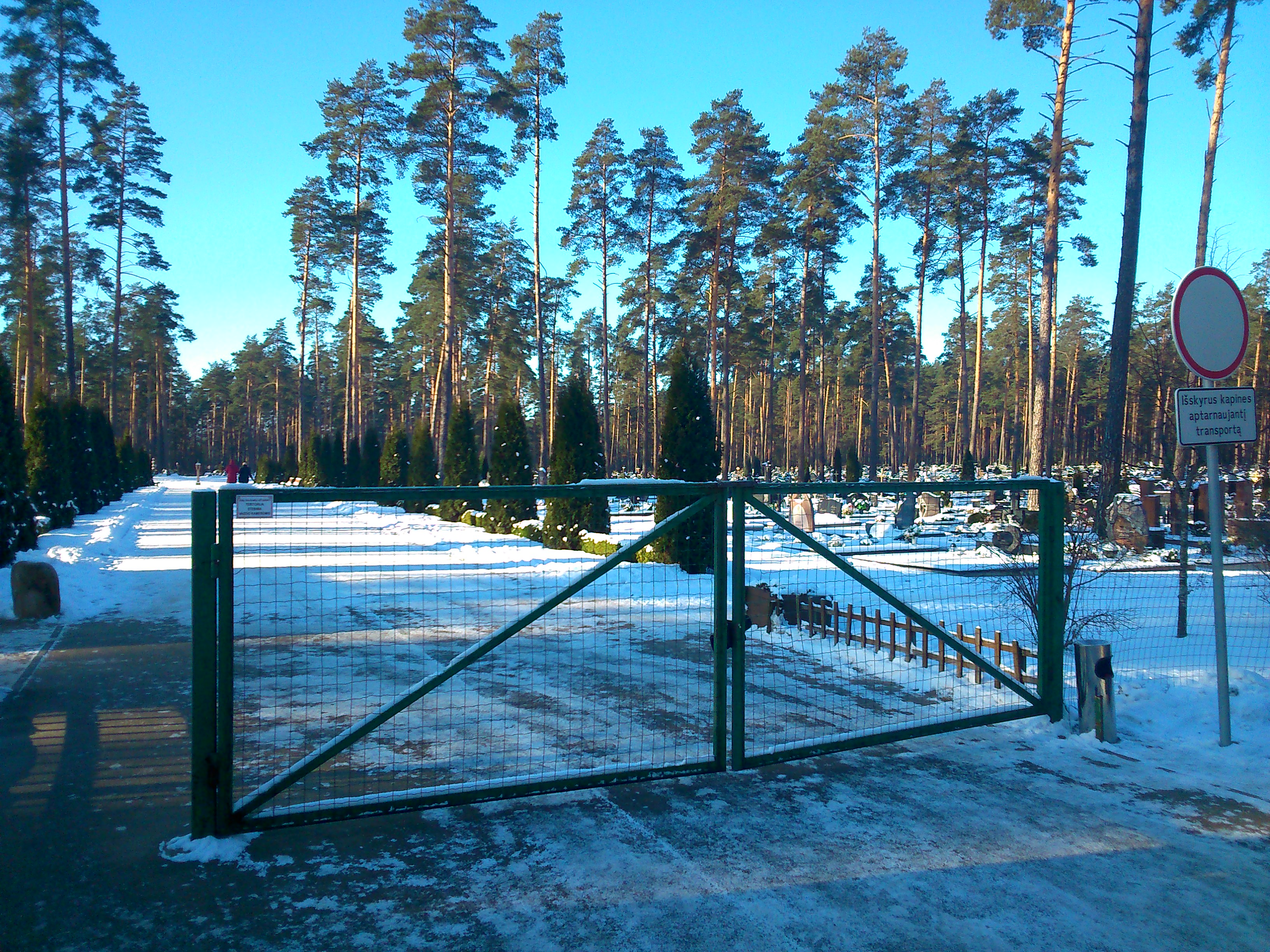 Kairėnai kapinės